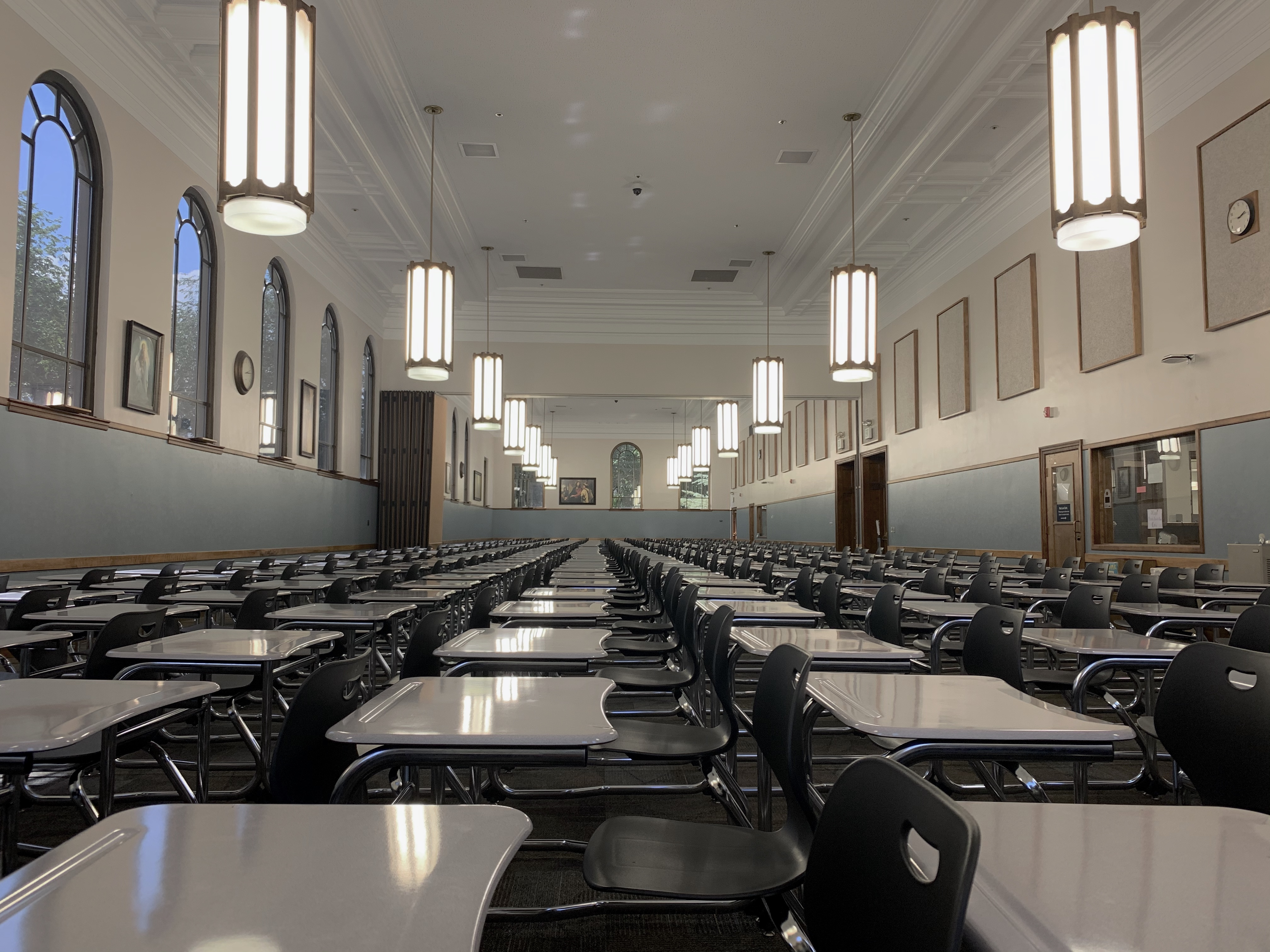 An interior shot of the main testing room of the BYU Testing Center from the east looking west.